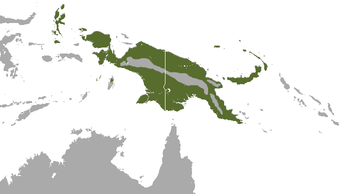 Common Tube-nosed Fruit Bat (Nyctimene albiventer) range